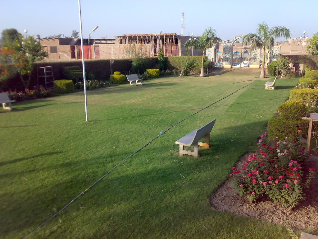 Shantinagar Park, Ghotki